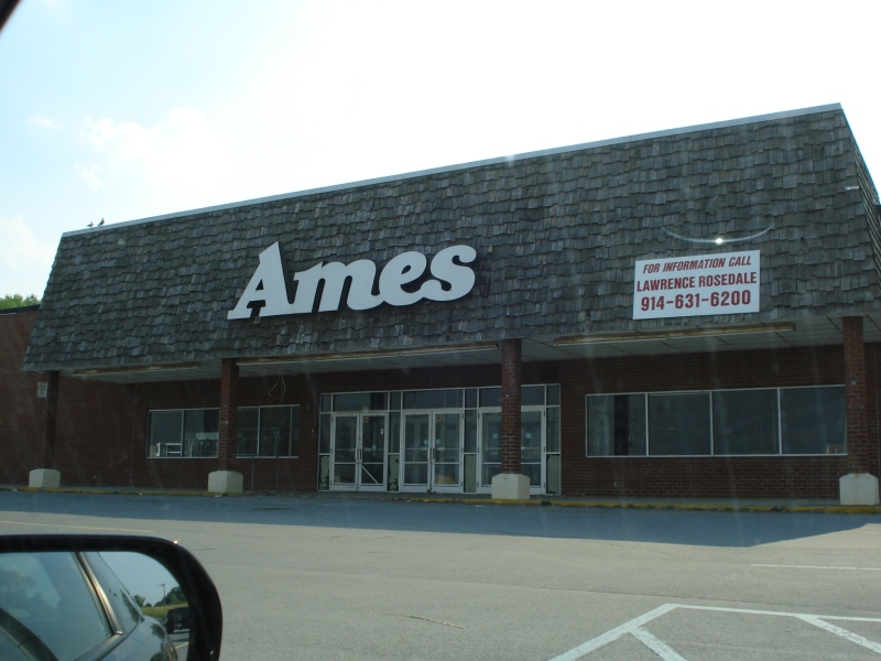 A picture of the Ames store in Lowville, NY.